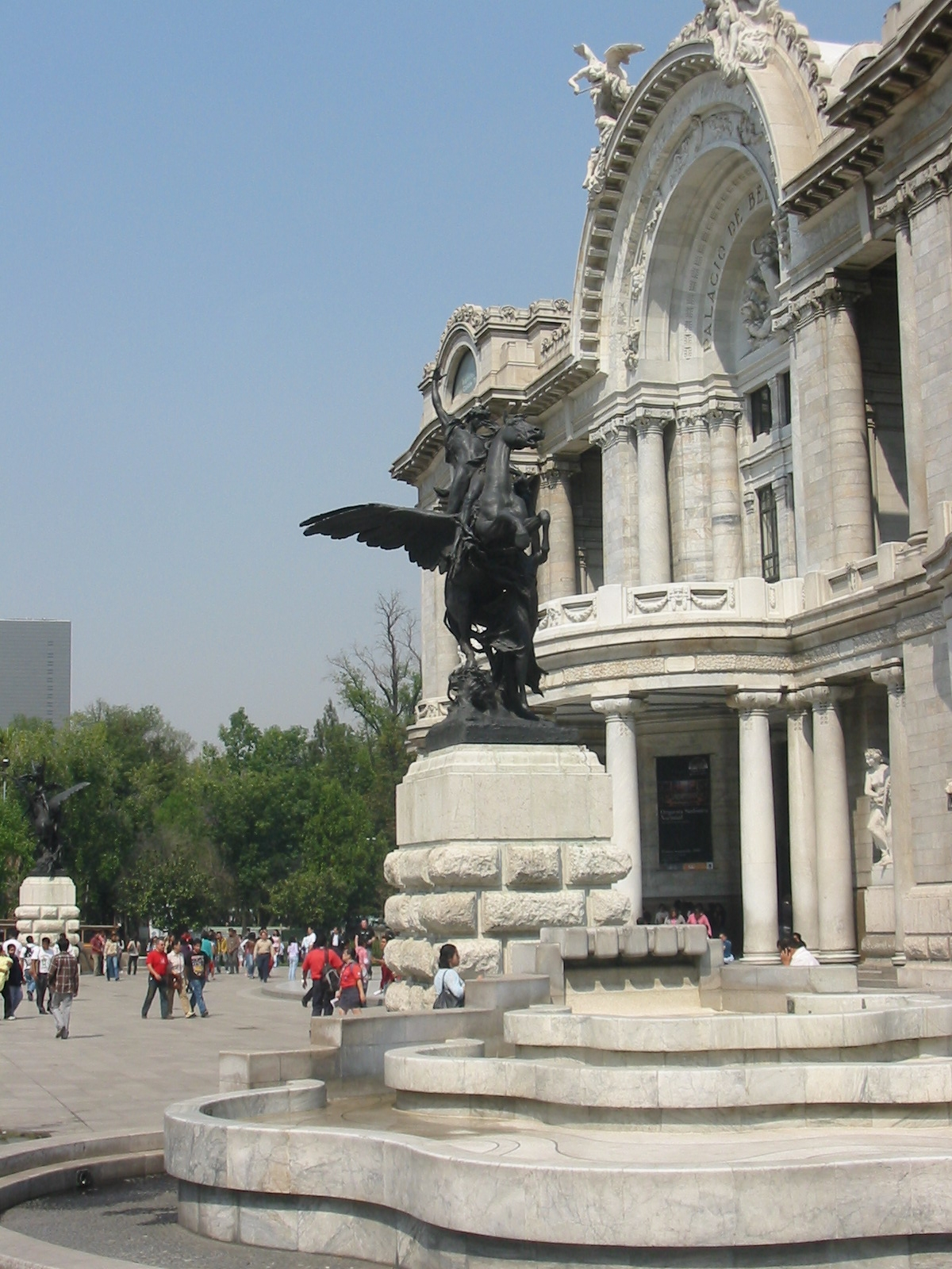 Close up of one of the statues guarding the plaza in front of Palacio de Bellas Artes.